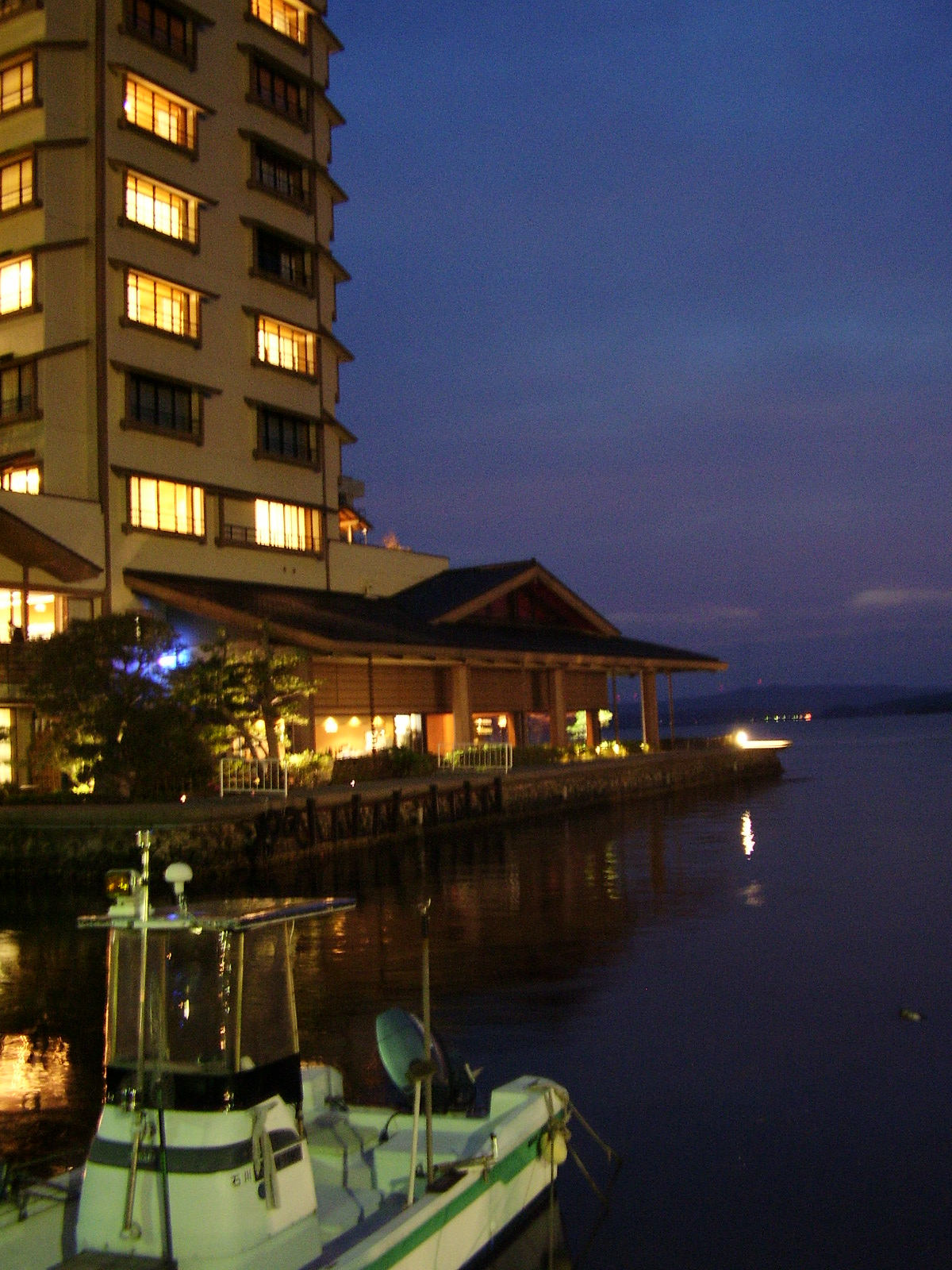 Wakura Onsen in Nanao, Ishikawa, Japan.